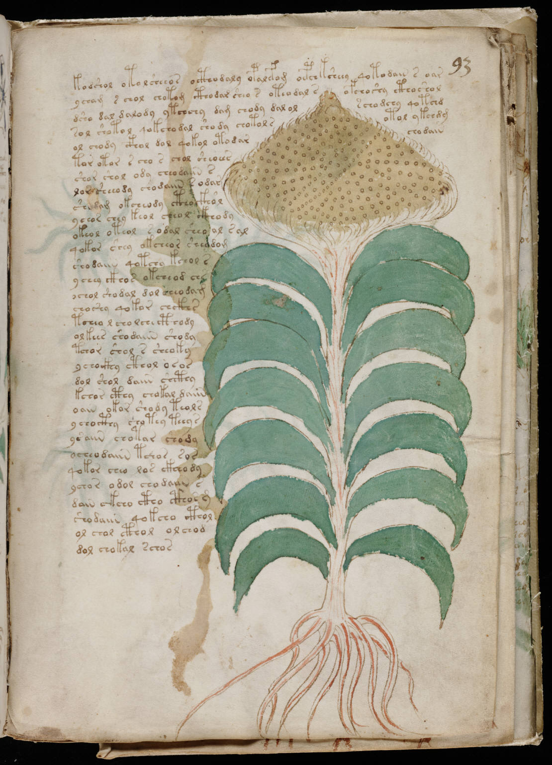 A page from the mysterious Voynich manuscript, which is undeciphered to this day.